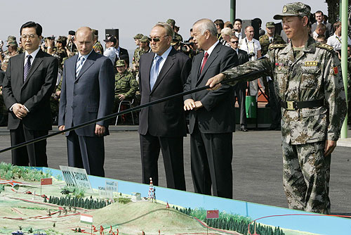 GENERAL FORCES TRAINING GROUND 225, CHEBARKUL, CHELYABINSK REGION. At the observation site for the final phase of the Shanghai Cooperation Organisation\'s Peace Mission 2007 counterterrorism exercise. The SCO heads of state (left to right: President of China Hu Jintao, President of Russia Vladimir Putin, President of Kazakhstan Nursultan Nazarbayev, and President of Uzbekistan Islam Karimov) beside a model of the training ground.